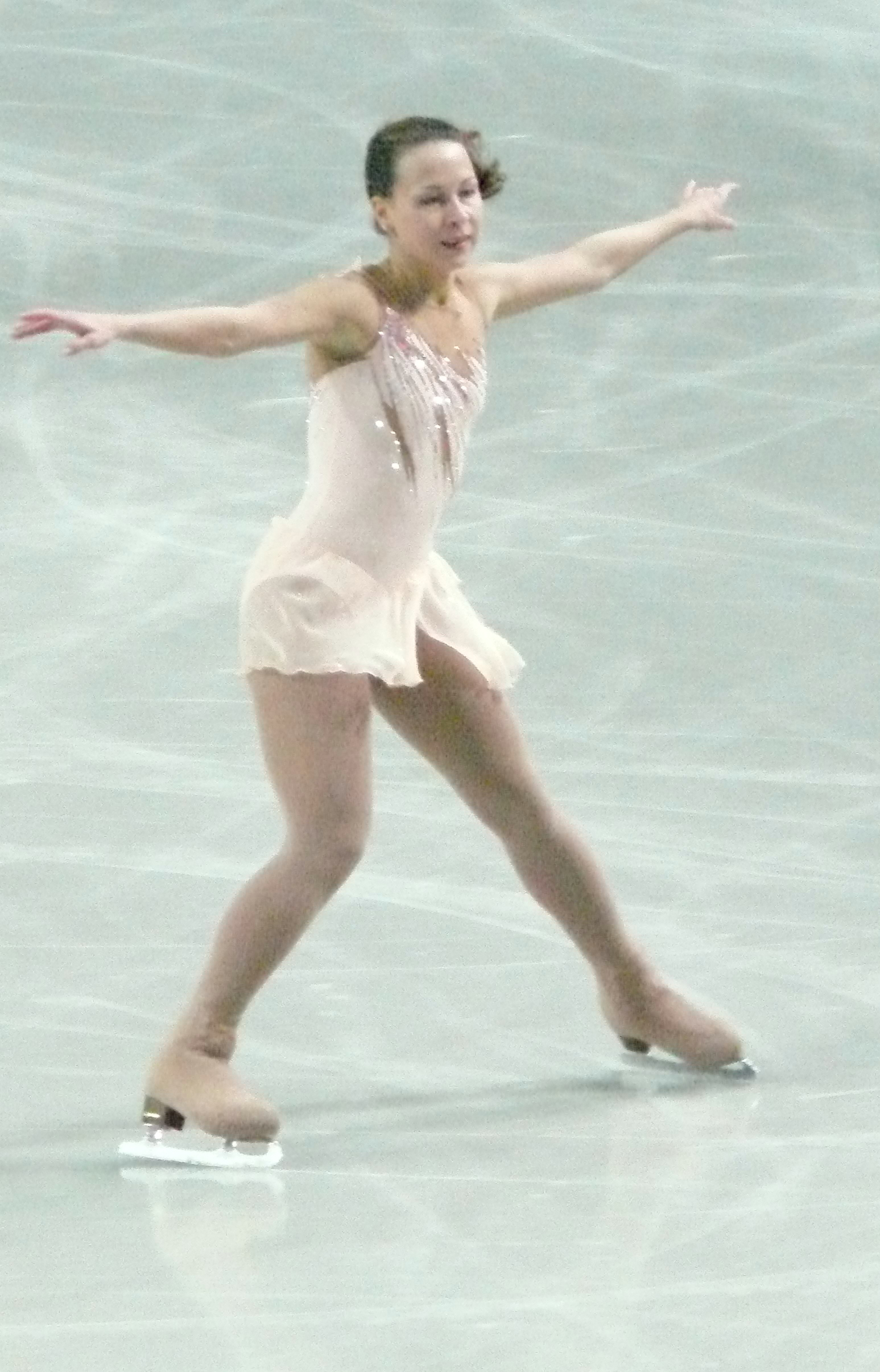 Alisa Drei (FIN) at the free program of the European Championships 2007 in Warsaw